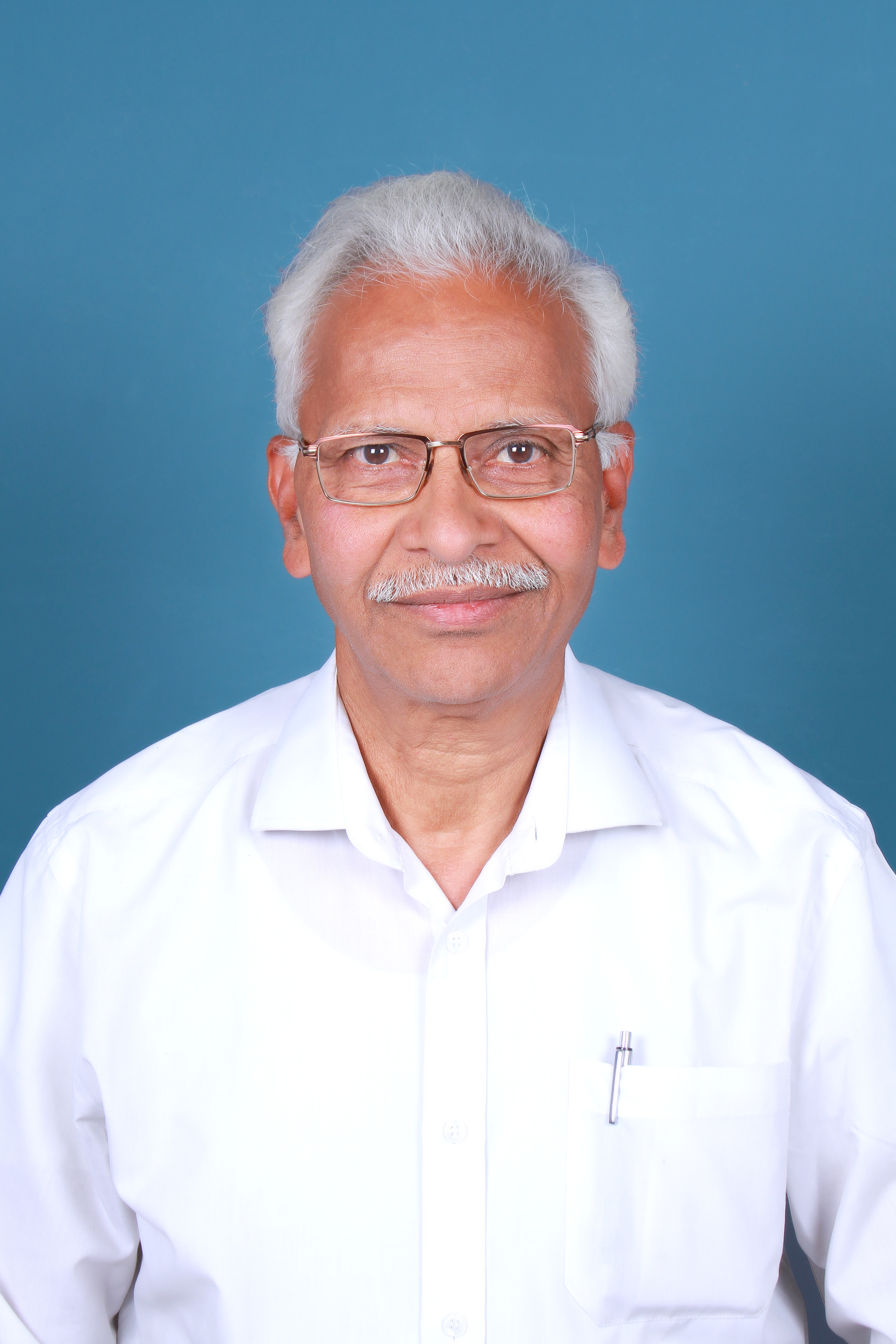 Marathi Writer